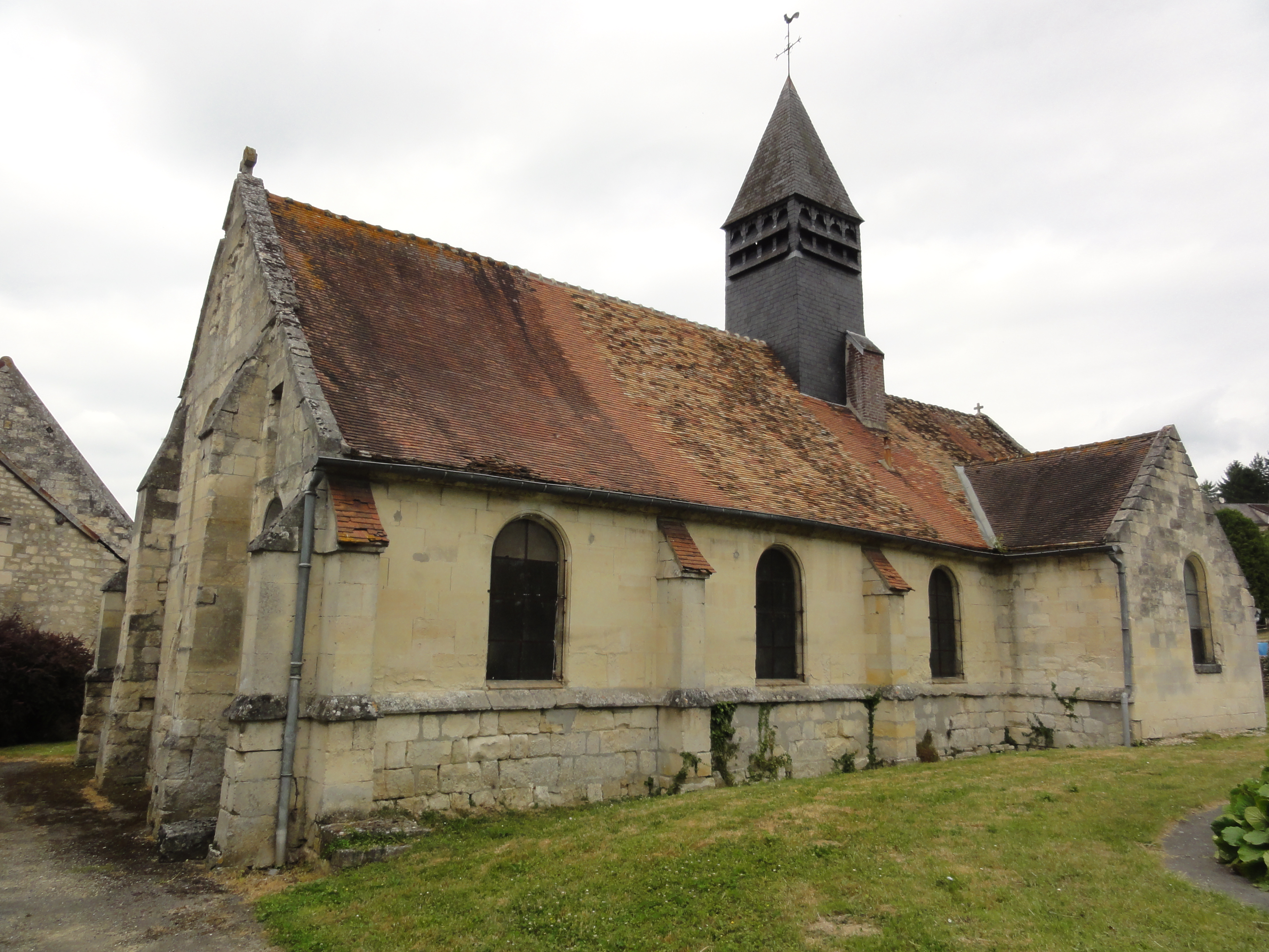 Puiseux-en-Retz (Aisne) église